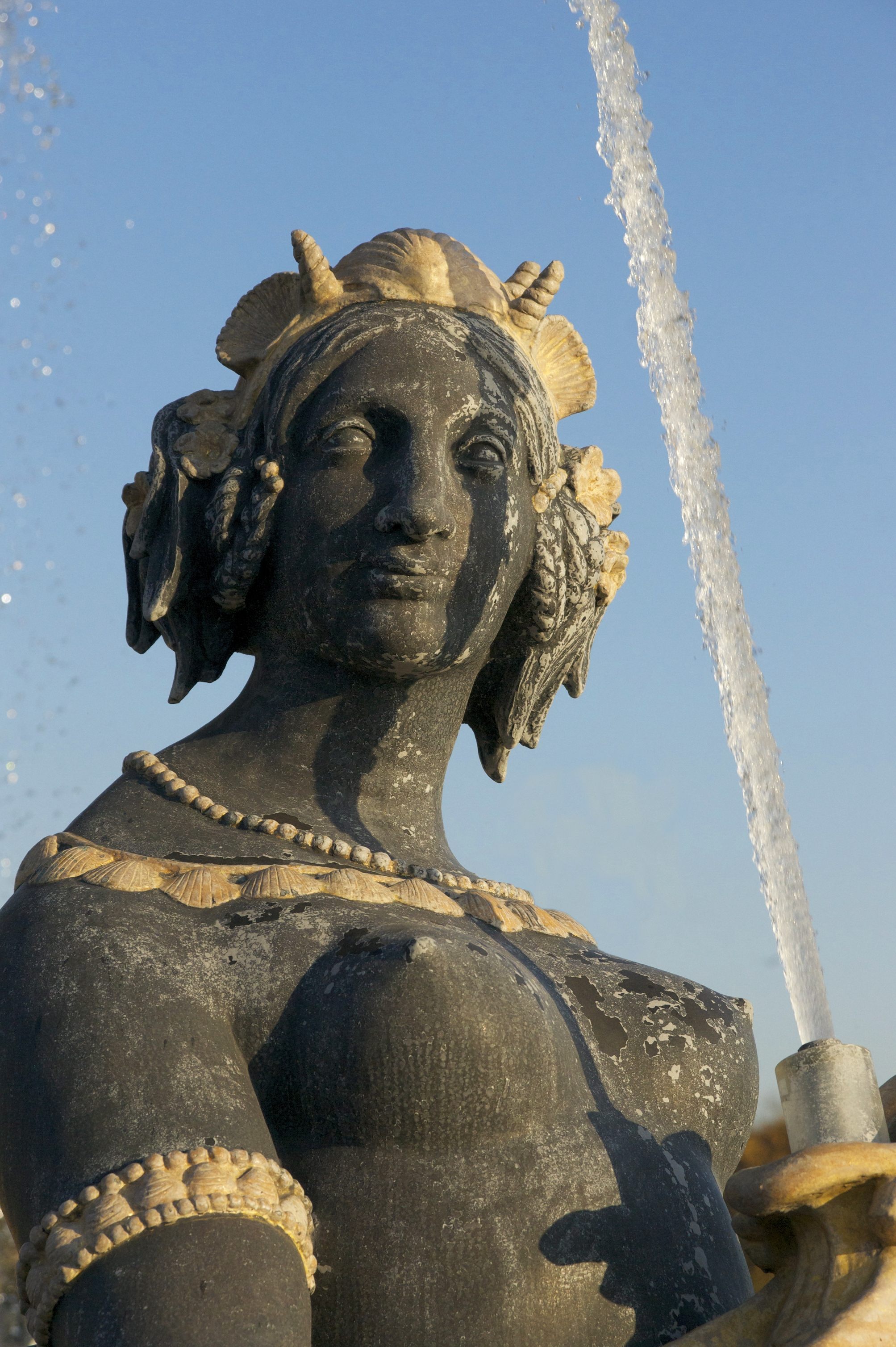 Bust of a nereid, "Fountain of the Rivers", Place de la Concorde, Paris.